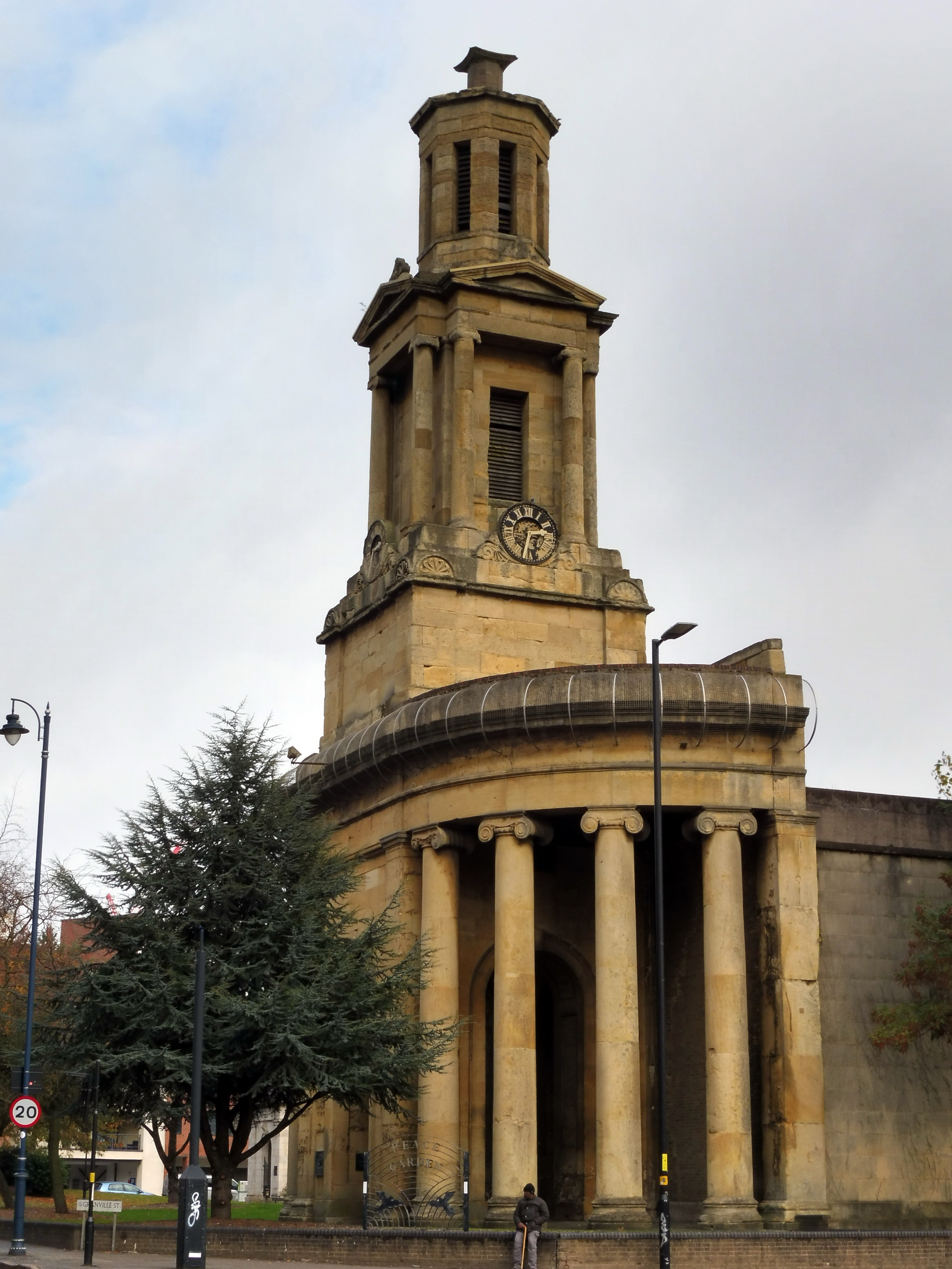 The ruins of St Thomas' Church in Birmingham, destroyed by an air raid in 1940, now part of the Peace gardens